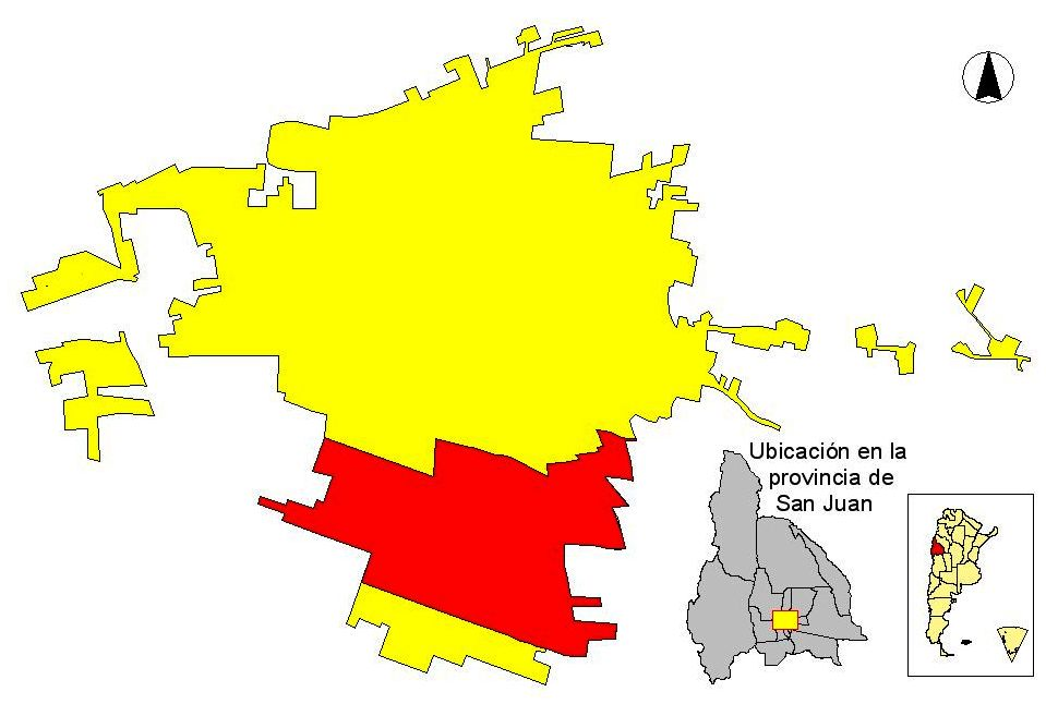 Map depicting the localizacón the Rawson Component within the urban agglomeration of Great San Juan, located in the San Juan Province, Argentina